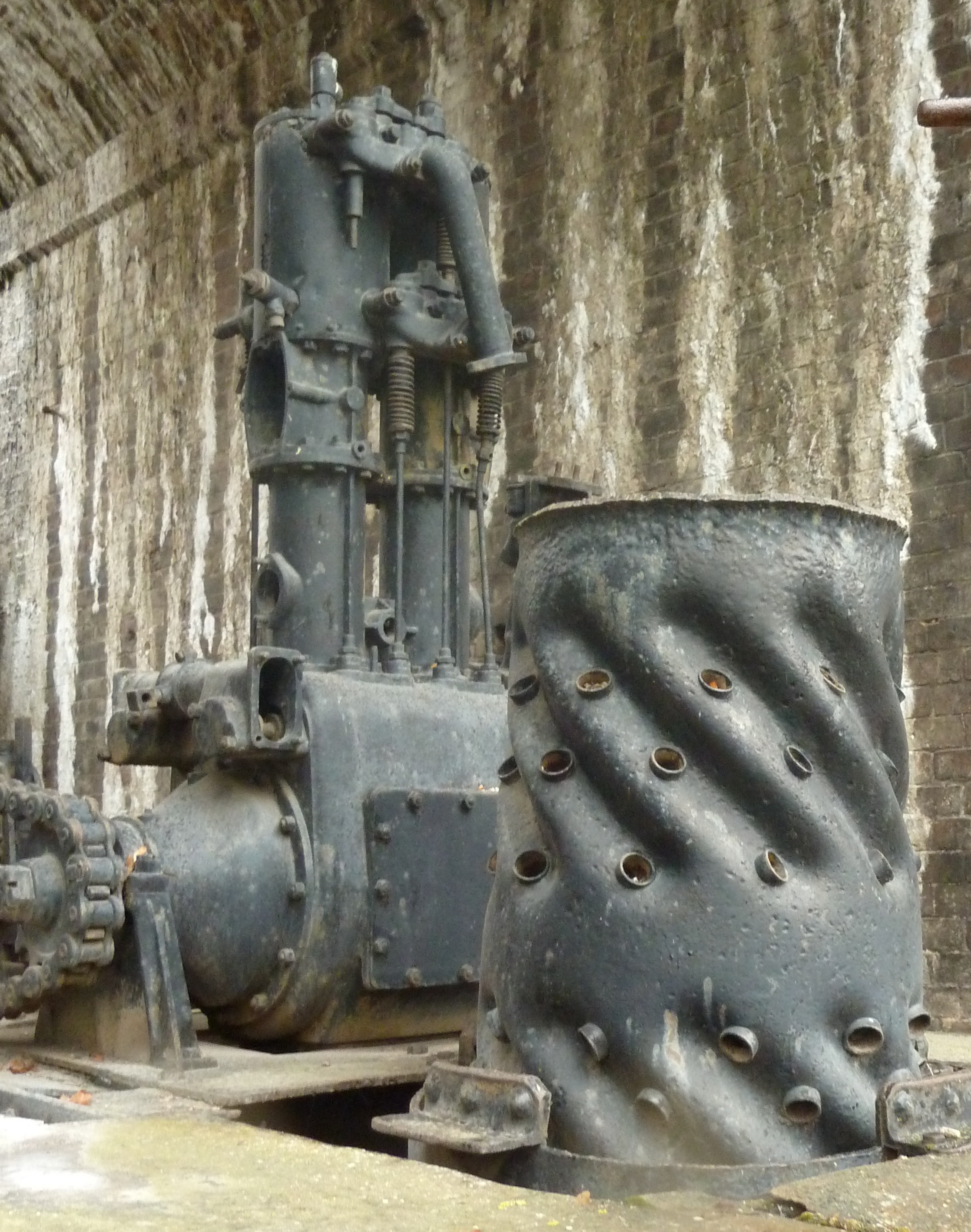 Two-cylinder vertical steam motor of a Sentinel locomotive.